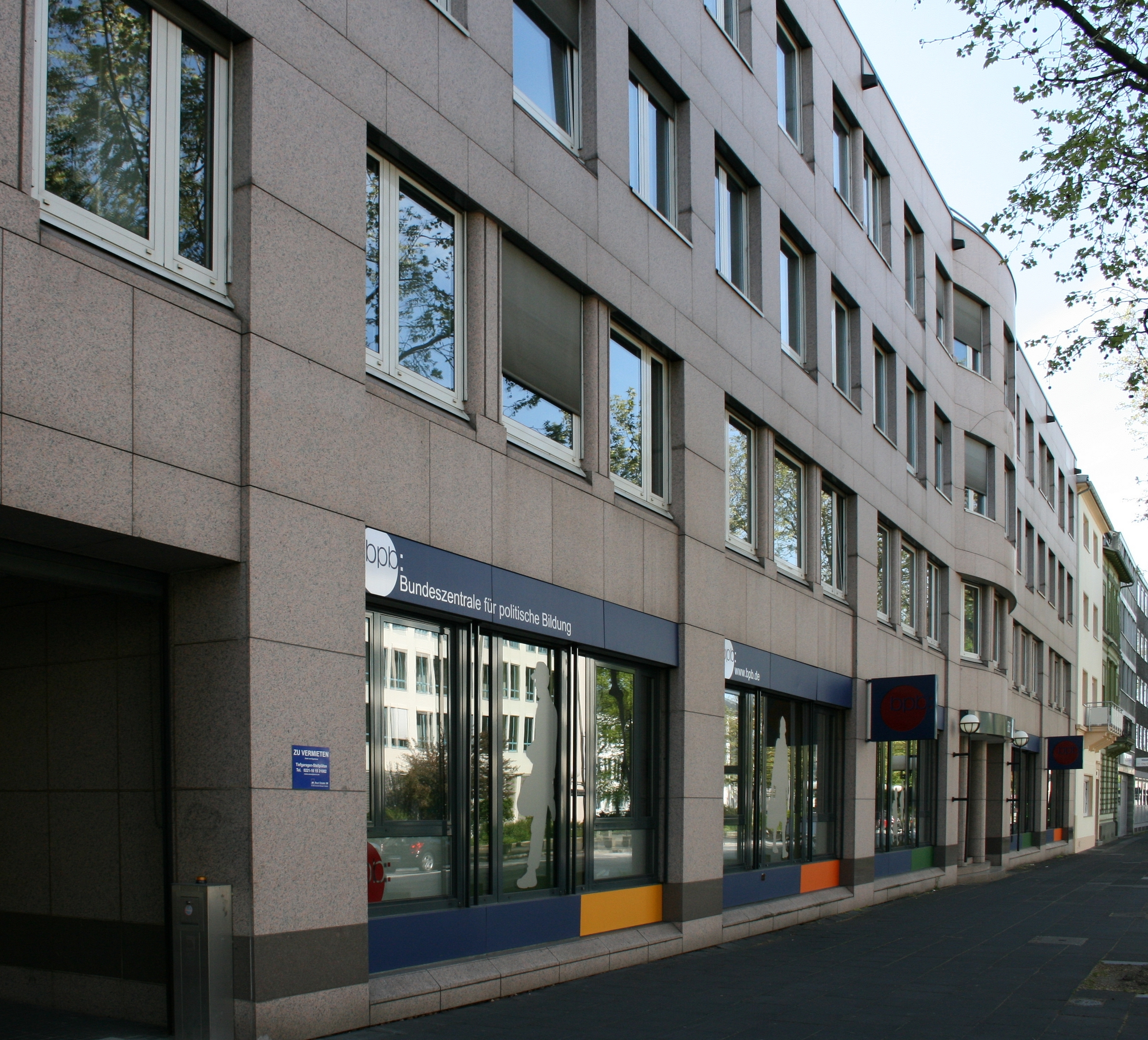 Bonn, Germany: (federal headquarters for political education) Bundeszentrale fuer politische Bildung, Adenauerallee 86